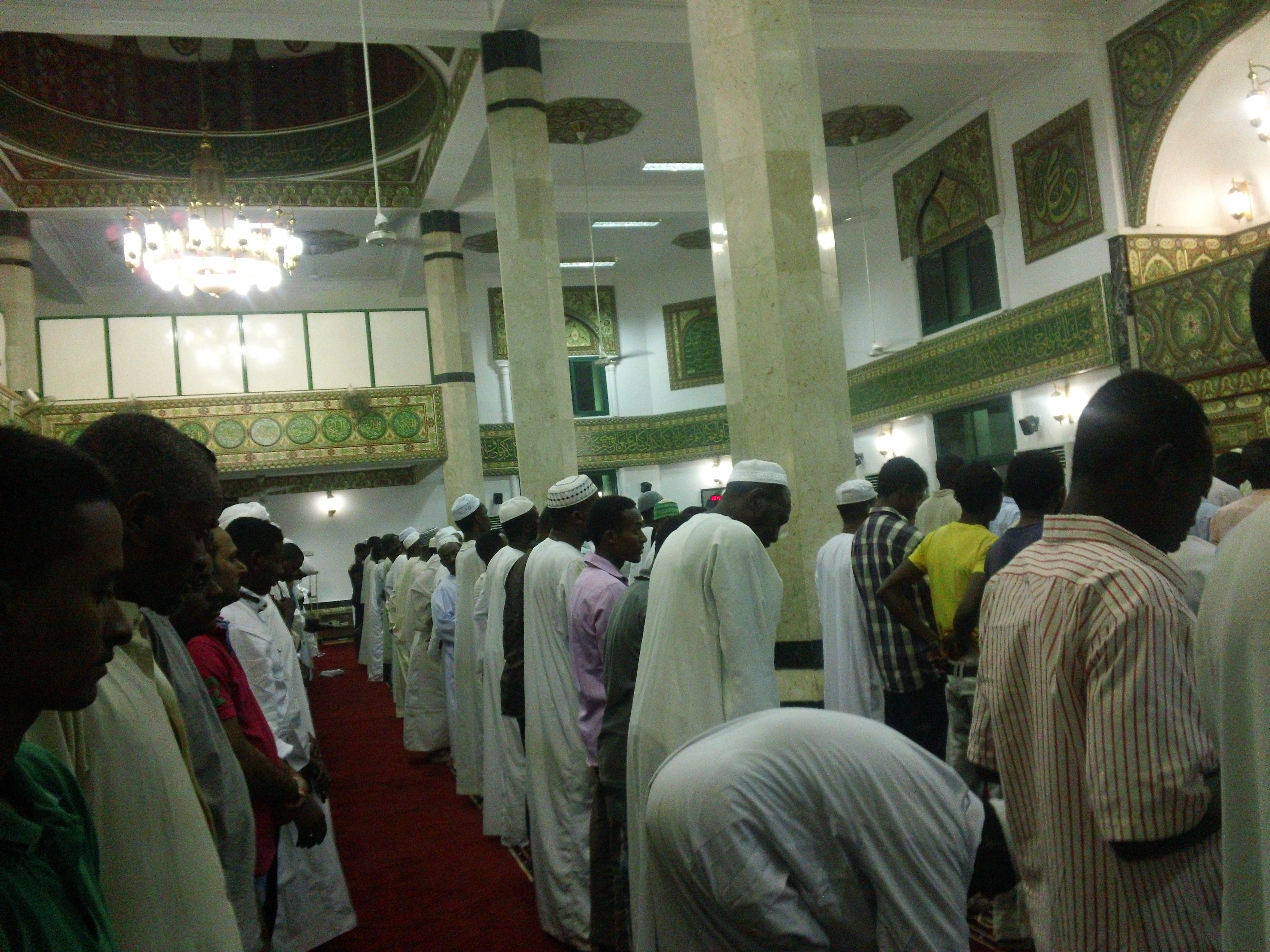 Tarawih prayers in Ramadan Siadah Sanhory mosque in Almanshiya - Khartoum - Sudan